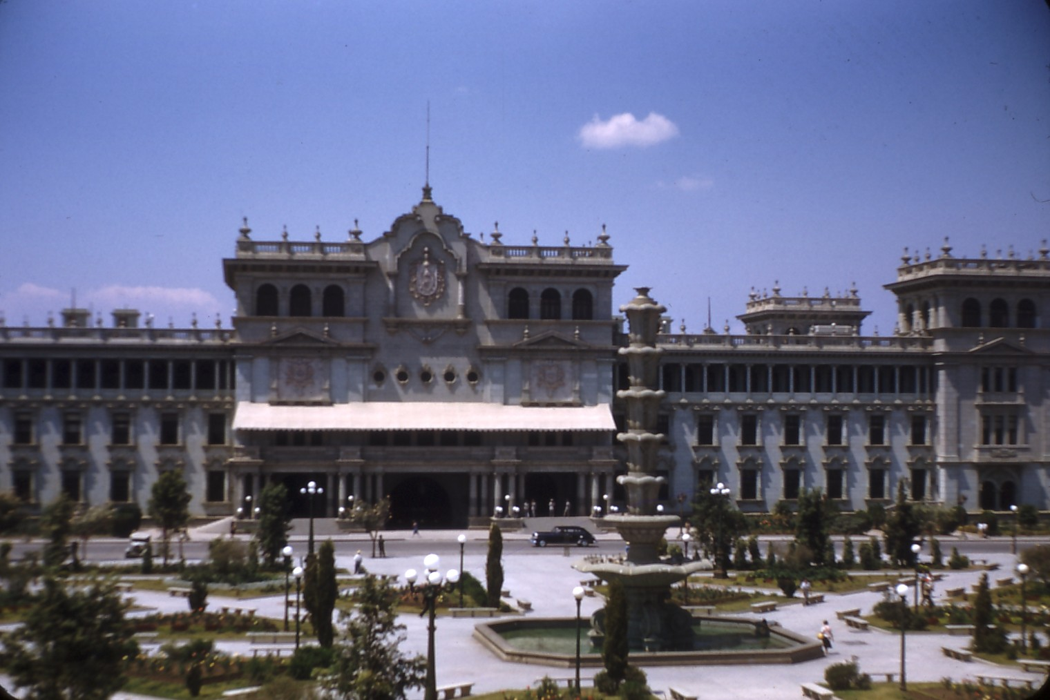 National Palace and the fronting park, Guatemala City, 1948